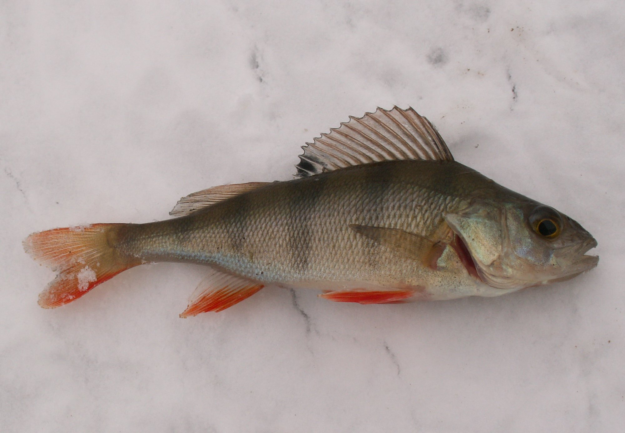 Medium sized perch (Perca fluviatilis), from the Betuwe, the Netherlands